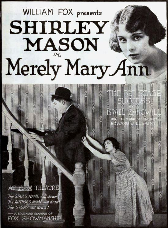 Advertisement for the American comedy drama film Merely Mary Ann (1920) with Shirley Mason and Kewpie Morgan, on page 25 of the September 25, 1920 Exhibitors Herald.